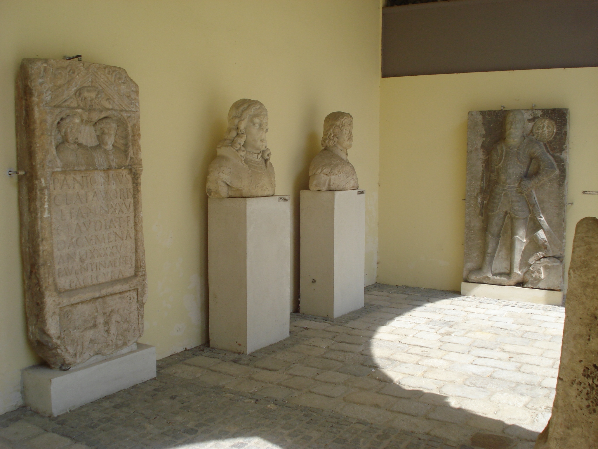 Exhibits in the Lapidarium of the Medjimurje County Museum, Čakovec, Croatia